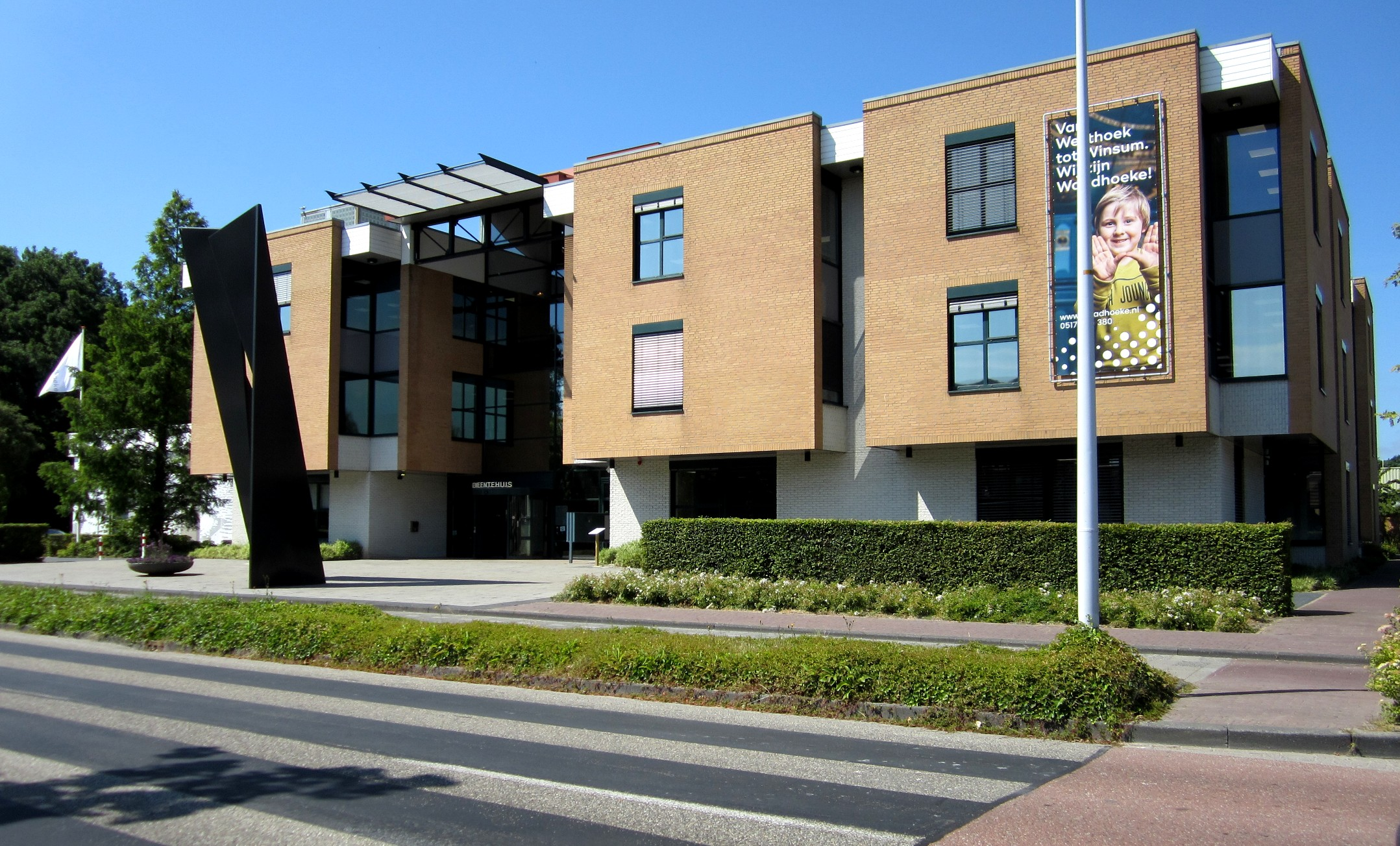 City hall of Waadhoeke, Franeker/Frjentsjer, Friesland, the Netherlands.